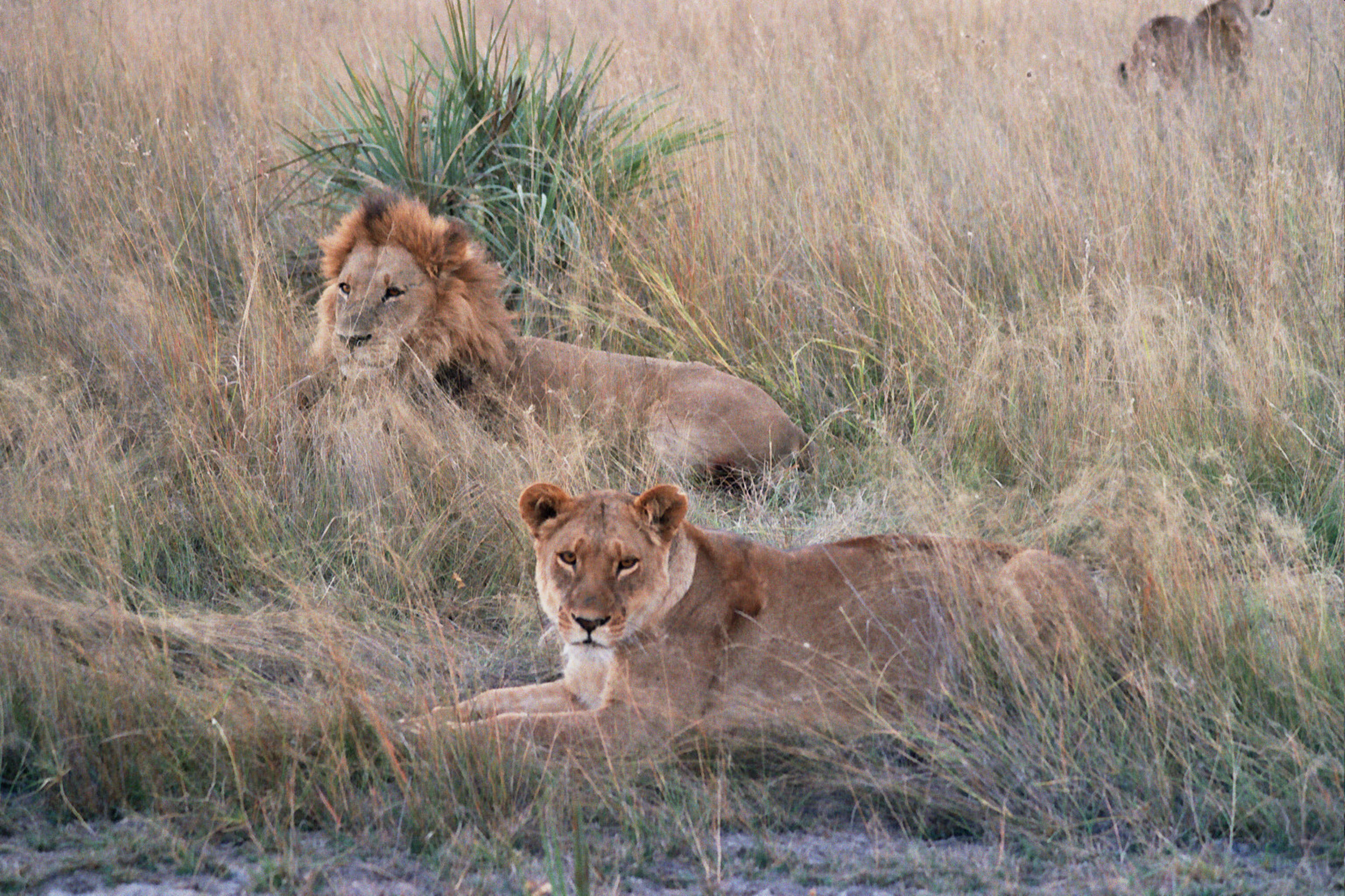 Lions hanging out in the Okavango Delta